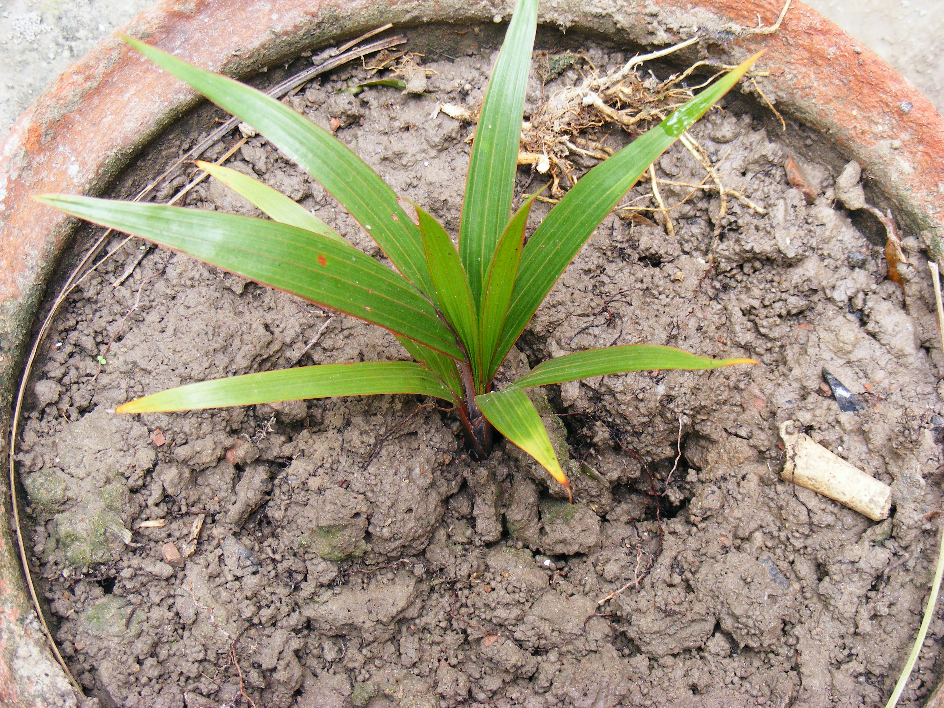 Juvenile Hyophorbe lagenicaulis